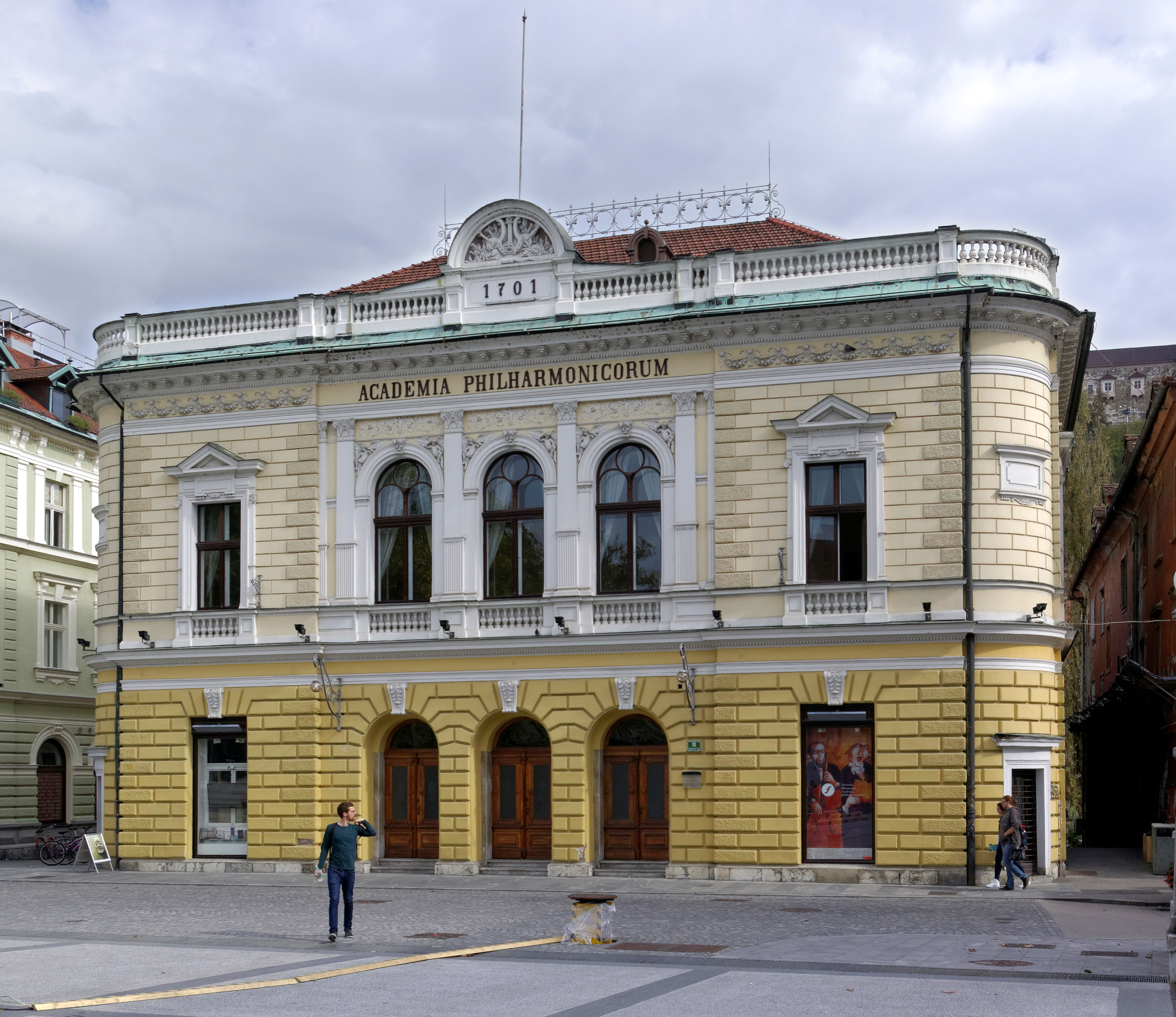 Slovenia, Ljubljana, Philharmonic Hall